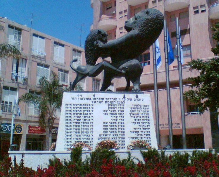 Classified under GFDL, uploaded to wikipedia in the Hebrew version by user named David Shay. Monument in memory of the 8 members of Irgun and the 2 members of lehi hanged by british authorities beetween 1938 and 1947. The monument is still in memory of Moshe Barazani (lehi) and Meir Feinstein (irgun) who commited a suicide in thier jail in 1947, before theire execution.